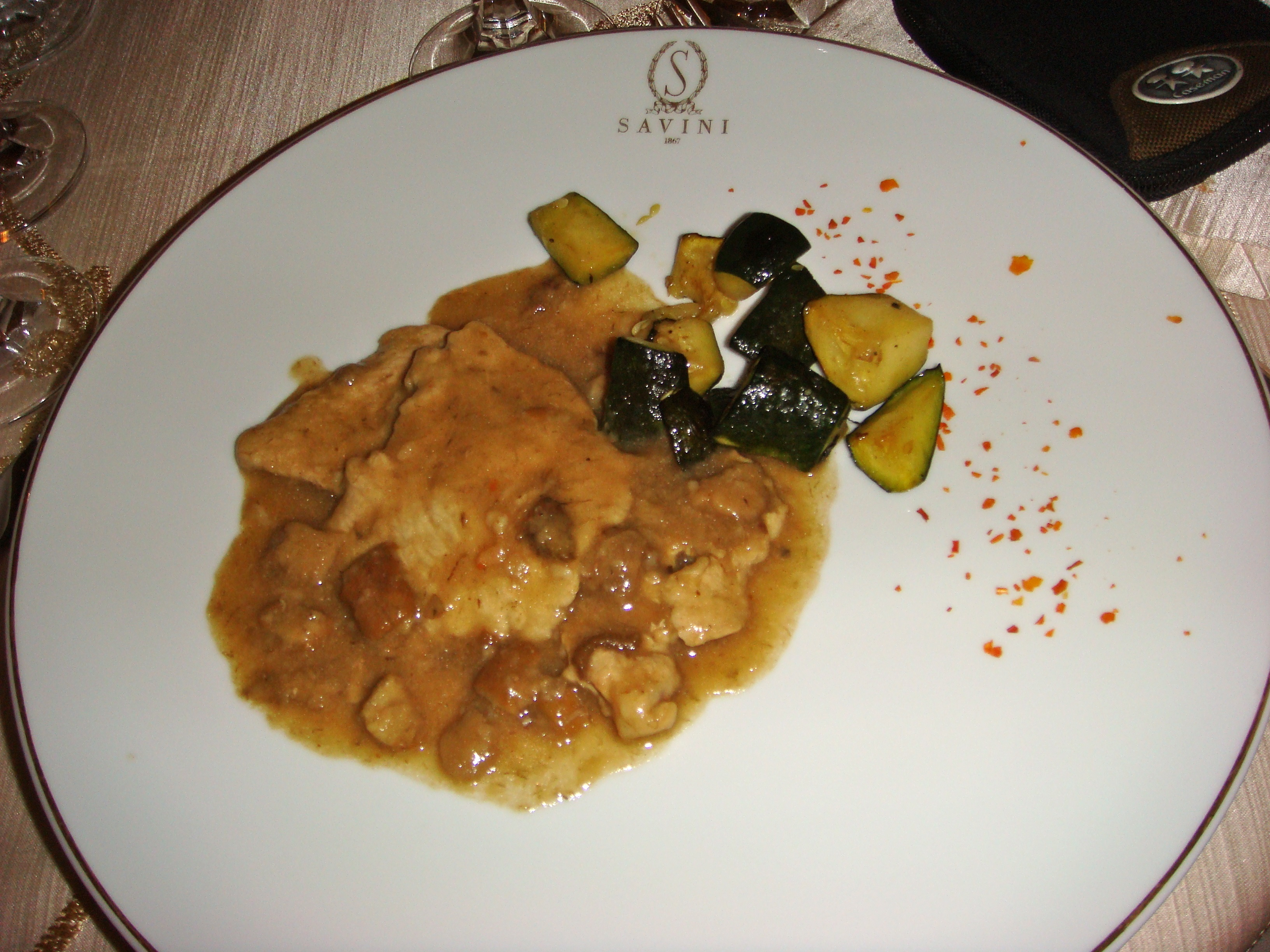 Veal scaloppine with porcini mushrooms and zucchini